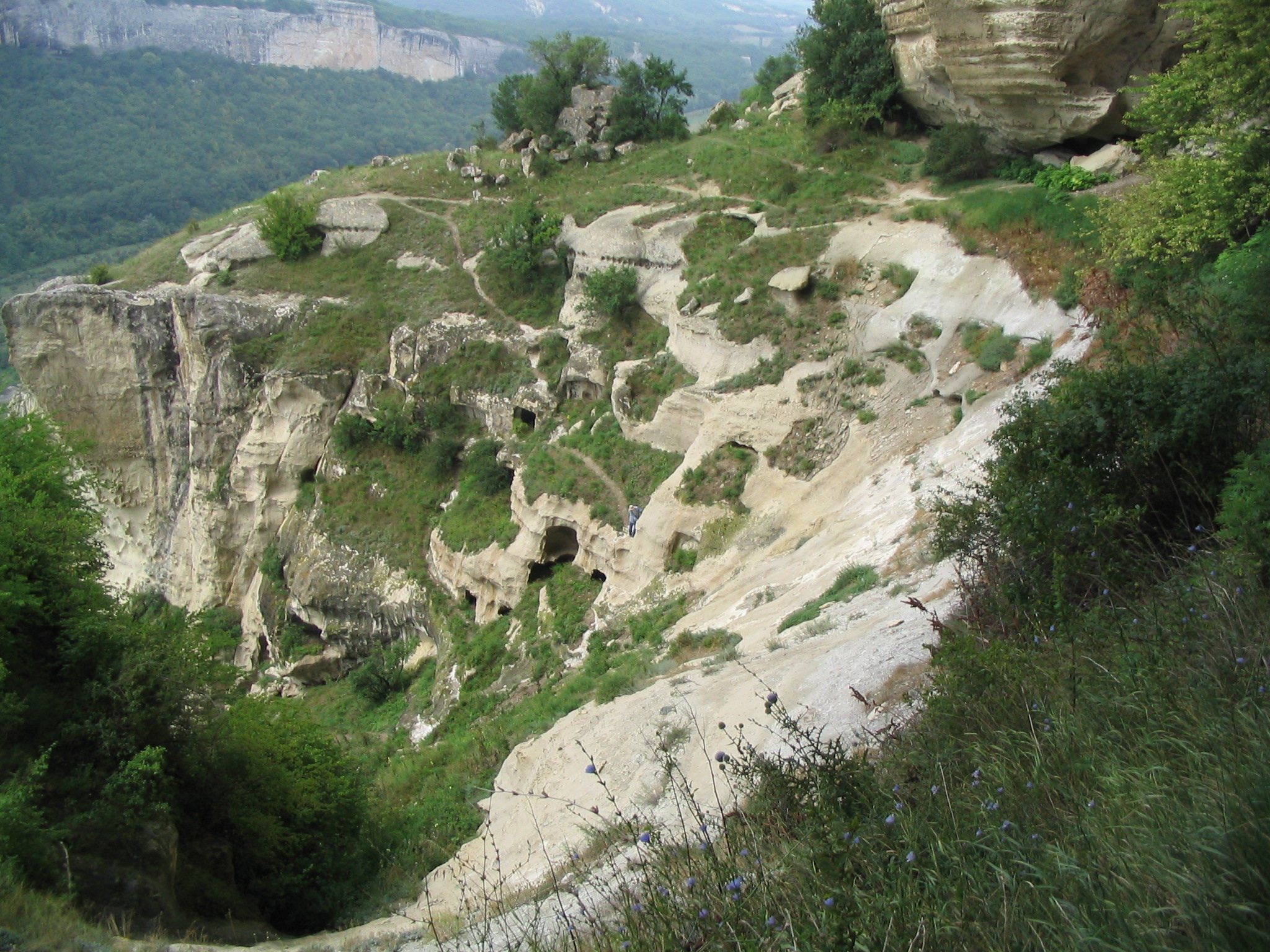 A view of Eski-Kermen, Bakhchisaray raion, Crimea, Ukraine